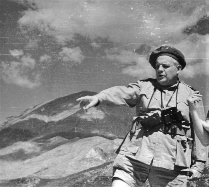 War Correspondent M Wankowicz at the battlefield of Monte Cassino May 1944